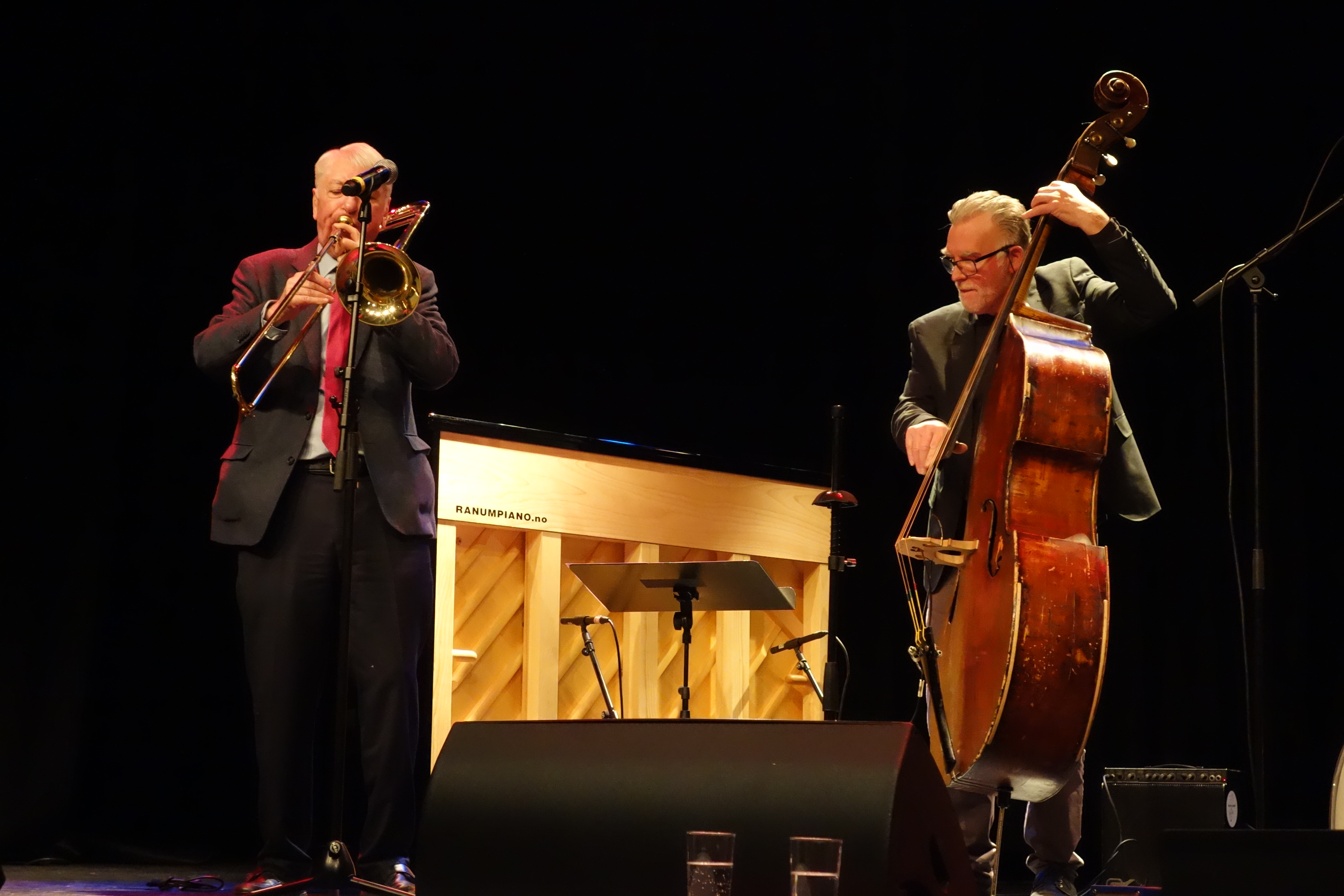 The British professor in educational research, jazz musician and poet Robert «Bob» Jackson (trombone) and the Norwegian professor and jazz musician Bjørn Alterhaug (double bass). Trondheim, March 9, 2017